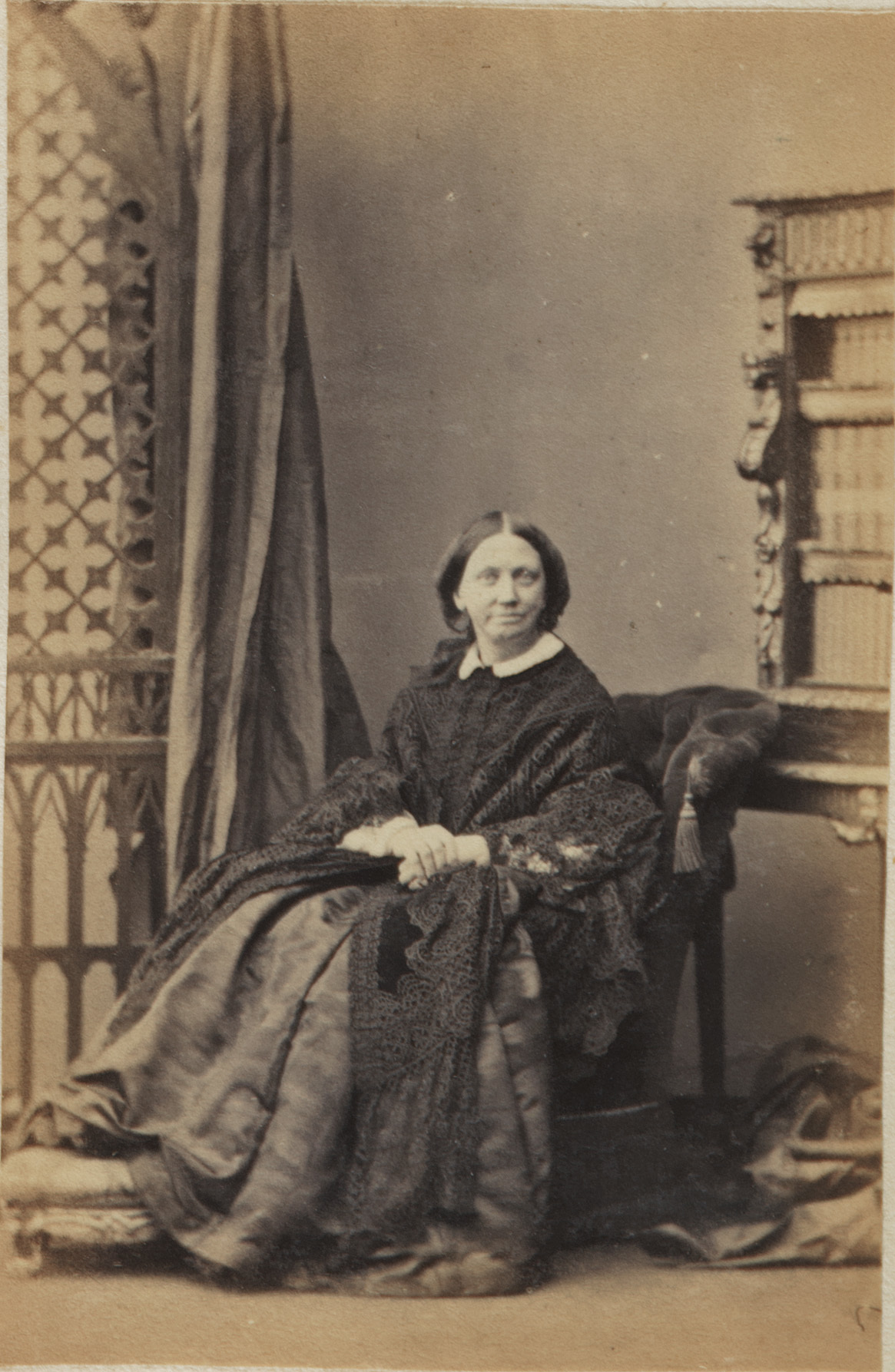 Depicted person: Emma Caroline Smith-Stanley, Countess of Derby – British countess